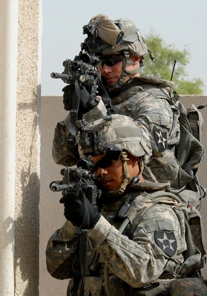 Cpt. J. Dow Covey and Staff Sgt. Justin Evaristo, both assigned to 4th Stryker Brigade Combat Team, 2nd Infantry Division, move around the corner of a building to secure its perimeter for the Mobile civil-military operations center in Mushahidah, Iraq (2007). Land Warrior Makes Soldiers Smarter, Faster, Safer Photo by Program Executive Office Soldier May 28, 2008